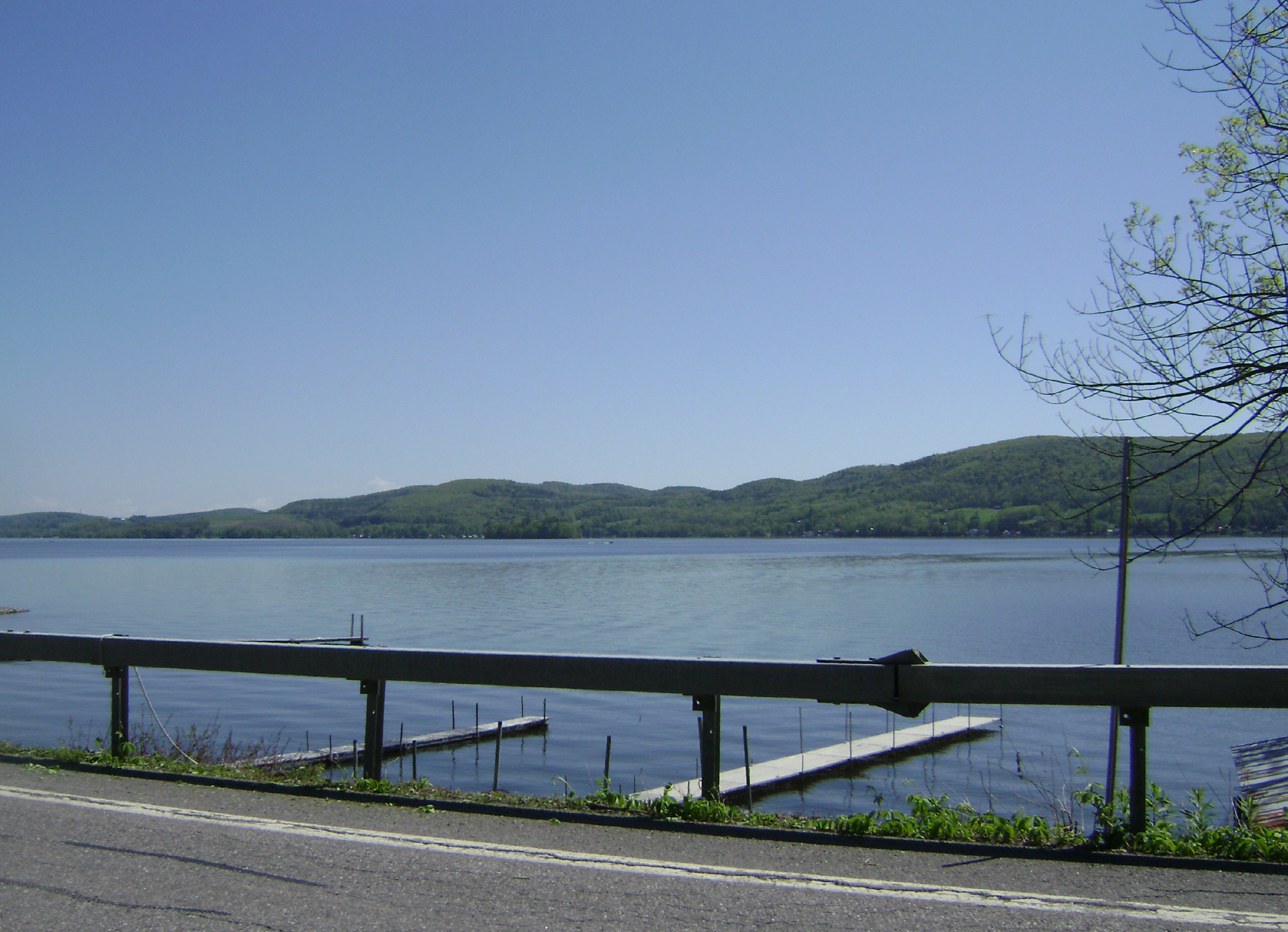 Canadarago Lake, seen from the side of NY 28 in Otsego County, New York, USA. The ridge of Panther Mountain can be seen in the background.